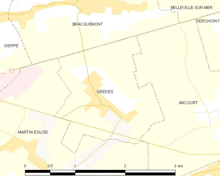 Map of French municipality Grèges